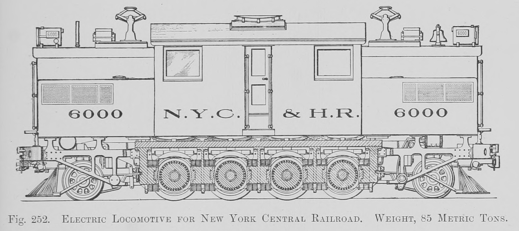 see image title - first number is figure or diagram number. See list of illustrations in source for page number in source - relevent text content is near to image in the source